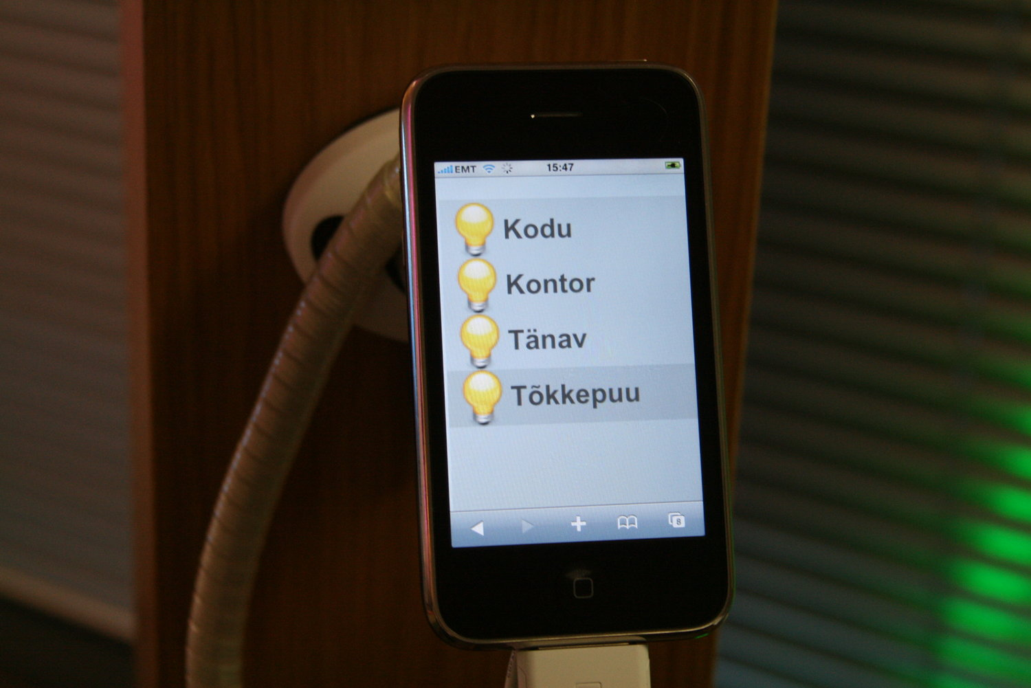 We figured it would be a nice synergy effect to play around a bit with the equipment in the EMT booth. At the opening of (press release in Estonian only) the Estonian ICT Demo Center in Ülemiste City. I was there to set up and demonstrate the Yoga Intelligent Building system which is represented in the Center.